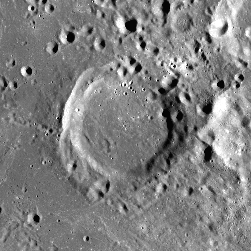 Crater Bilharz (diam. 44 km) on the Moon. Mosaic of photos by Lunar Reconnaissance Orbiter, made with Wide Angle Camera. Size of the image is 85×85 km, north is up.